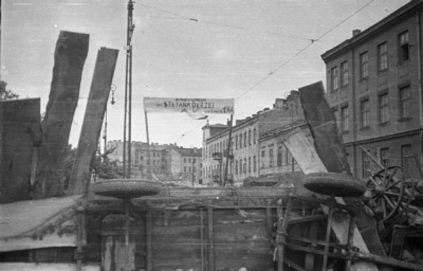 WarsawUprising: Barricade between buildings at Okopowa 33 (corner of Barona street) and Okopawa 26 street. On the right in the back intersection with Wolność (Freedom) Street renamed by Germans to Zegarmistrzowska (Watchmaker) Street. Above barricade sign saying: "Stefan Okrzeia memorial barricade. AK, August 1944". This sort of signs was often used at Wola district.